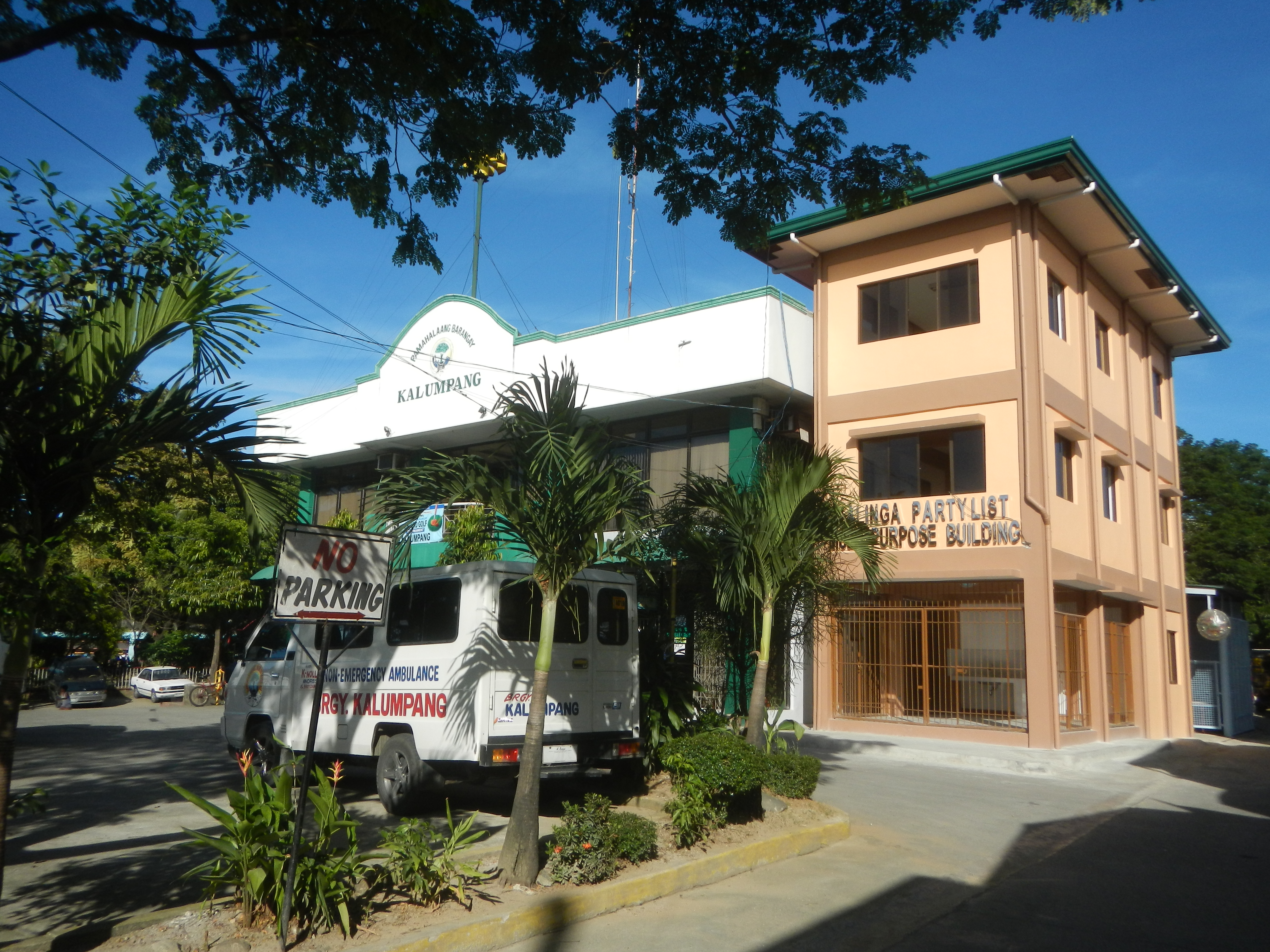 List of barangays of Metro Manila, List of landmarks and attractions of Marikina Barangays of Marikina Barangays Calumpang, Marikina and in front of Barangka (Marikina), Marikina City Marikina River Marikina River Park under the Marikina River Park Authority, 1993 system of parks, trails, open spaces and recreation facilities along an 11-kilometre (6.8 mi) stretch of the Marikina River, Carabao statues along J. P Rizal Street Tayug Street M. A. Roxas Street (Note: Judge Florentino Floro, the owner, to repeat, Donor Florentino Floro of all these photos hereby donate gratuitously, freely and unconditionally all these photos to and for Wikimedia Commons, exclusively, for public use of the public domain, and again without any condition whatsoever).